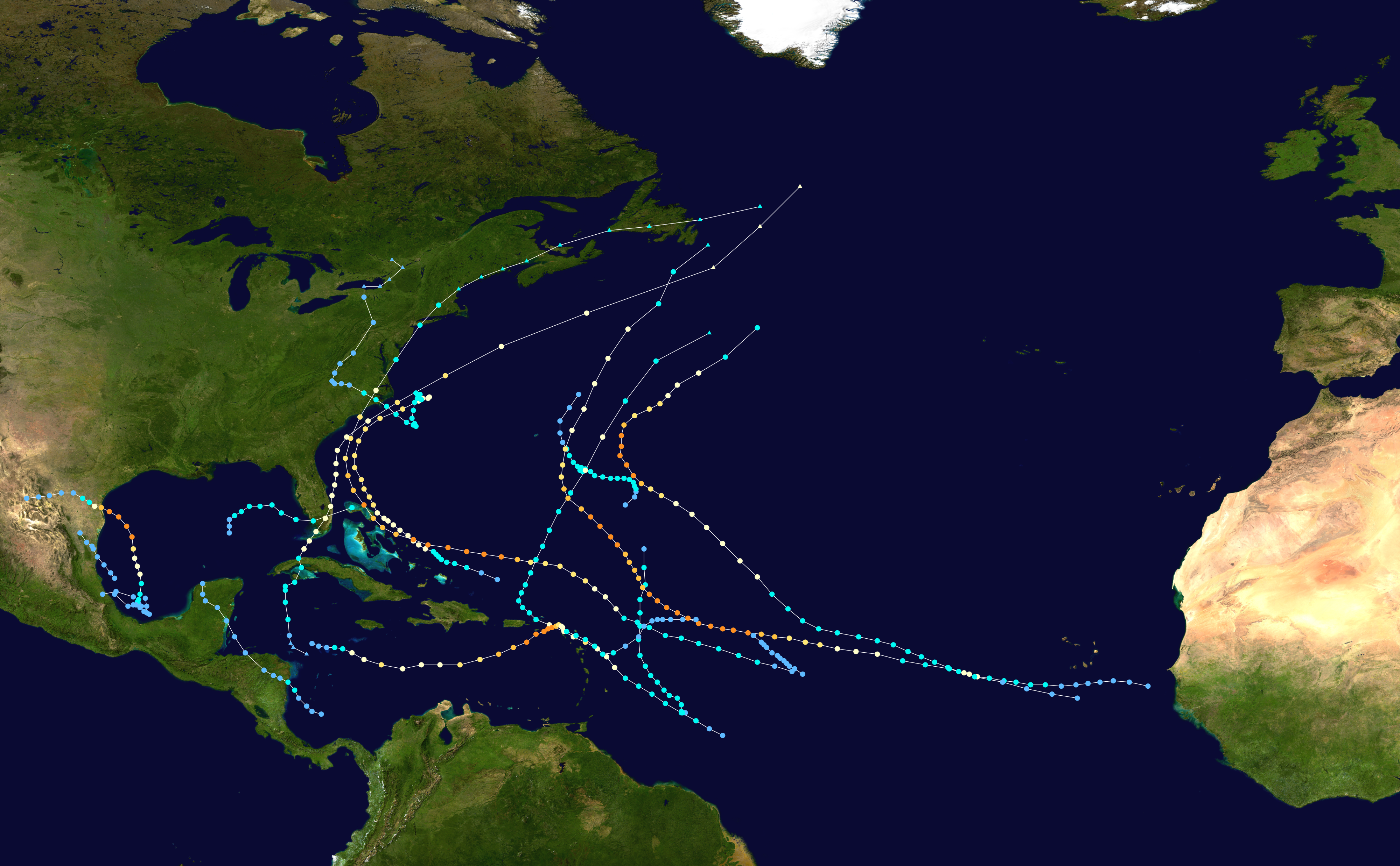 This map shows the tracks of all tropical cyclones in the 1999 Atlantic hurricane season. The points show the location of each storm at 6-hour intervals. The colour represents the storm's maximum sustained wind speeds as classified in the Saffir-Simpson Hurricane Scale (see below), and the shape of the data points represent the type of the storm. Saffir–Simpson scale Tropical depression≤38 mph≤62 km/h Category 3111–129 mph178–208 km/h Tropical storm39–73 mph63–118 km/h Category 4130–156 mph209–251 km/h Category 174–95 mph119–153 km/h Category 5≥157 mph≥252 km/h Category 296–110 mph154–177 km/h Unknown Storm type Tropical cyclone Subtropical cyclone Extratropical cyclone / Remnant low / Tropical disturbance / Monsoon depression